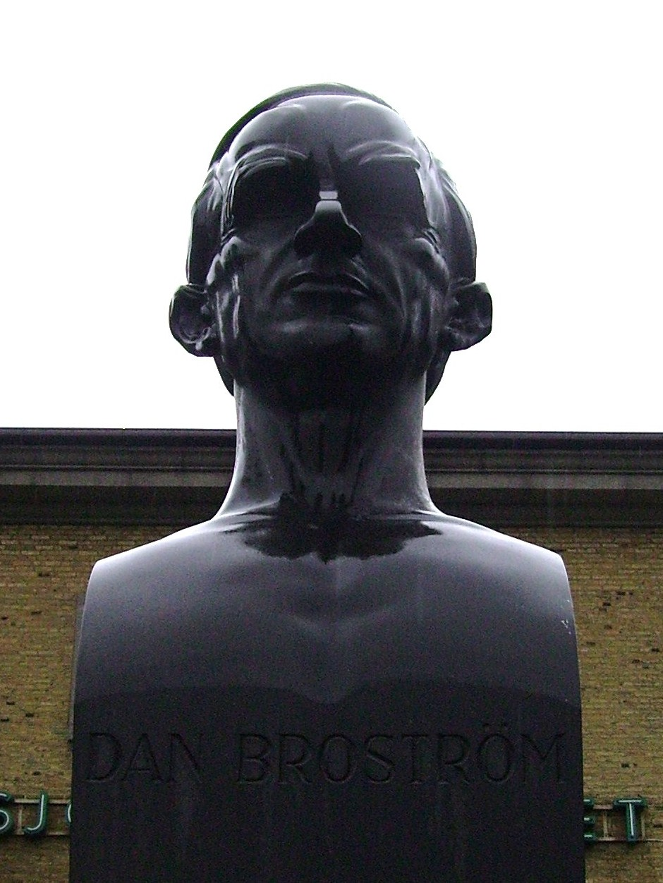 Picture of bust of Dan Broström in Göteborg